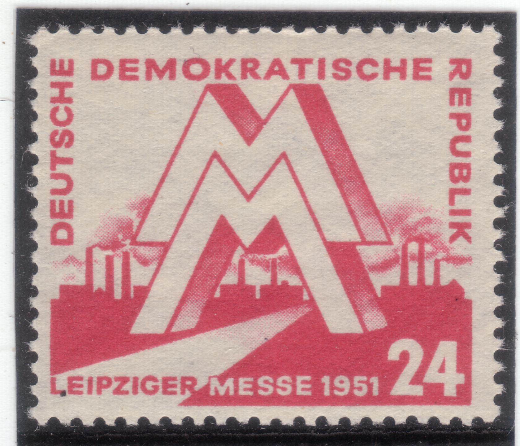 Leipzig Fair in spring 1951 Graphic designer: Egon Pruggmayer Ausgabepreis: 24 Pf First Day of Issue / Erstausgabetag: 4. März 1951 Michel-Katalog-Nr: 282